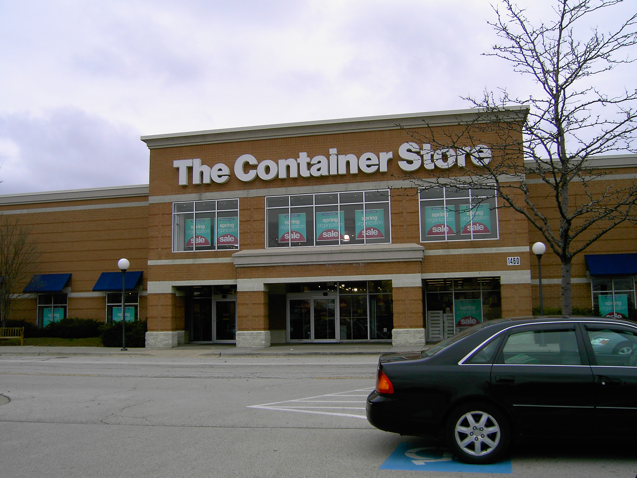 A self-made photograph of the Container Store in Schaumburg, Illinois on April 7, 2006. A self-made photograph of the Container Store in Schaumburg, Illinois on April 7, 2006.